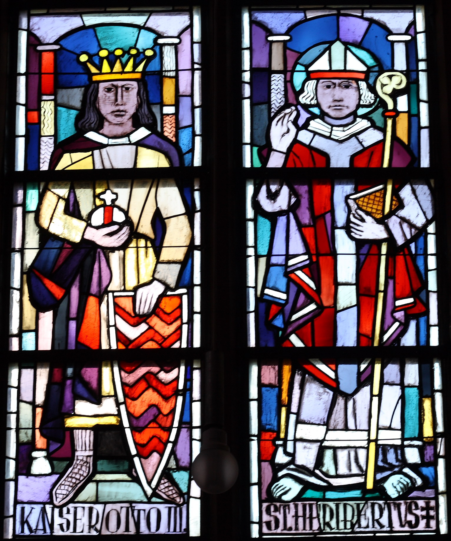 Emperor Otto III, Holy Roman Emperor, and Saint Heribert, archbishop of Cologne. Stained glass windows in the church of St. Heribert in Kreuzau, Germany.